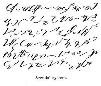 Example of Leopold Arends's shorthand system, adapted to Swedish language